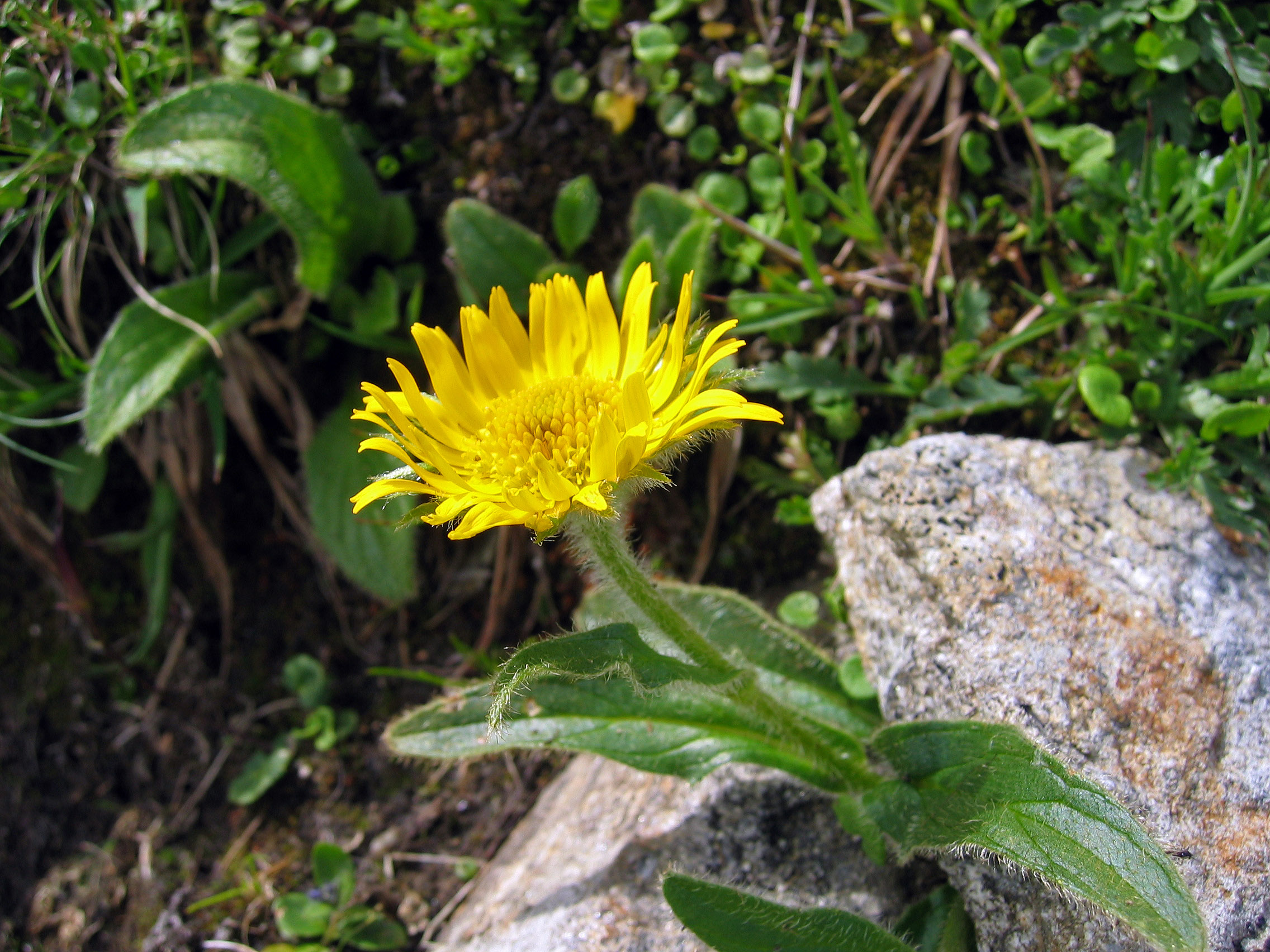 Doronicum clusii subsp. villosum, Near Großer Bösenstein, Styria, Austria